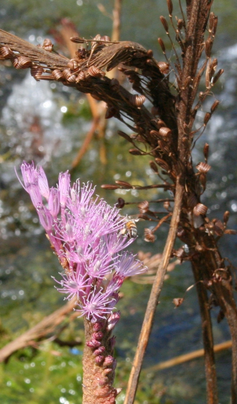 Flowers and fuits of Mourera fluviatilis (Podostemaceae family). Picture taken in the Llovizna falls park, in Puerto Ordaz, Venezuela.